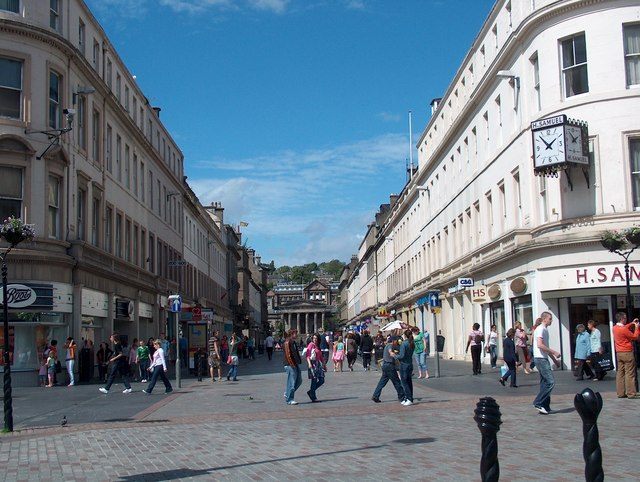 Reform Street, Dundee This street stands out for the uniformity of the architecture.